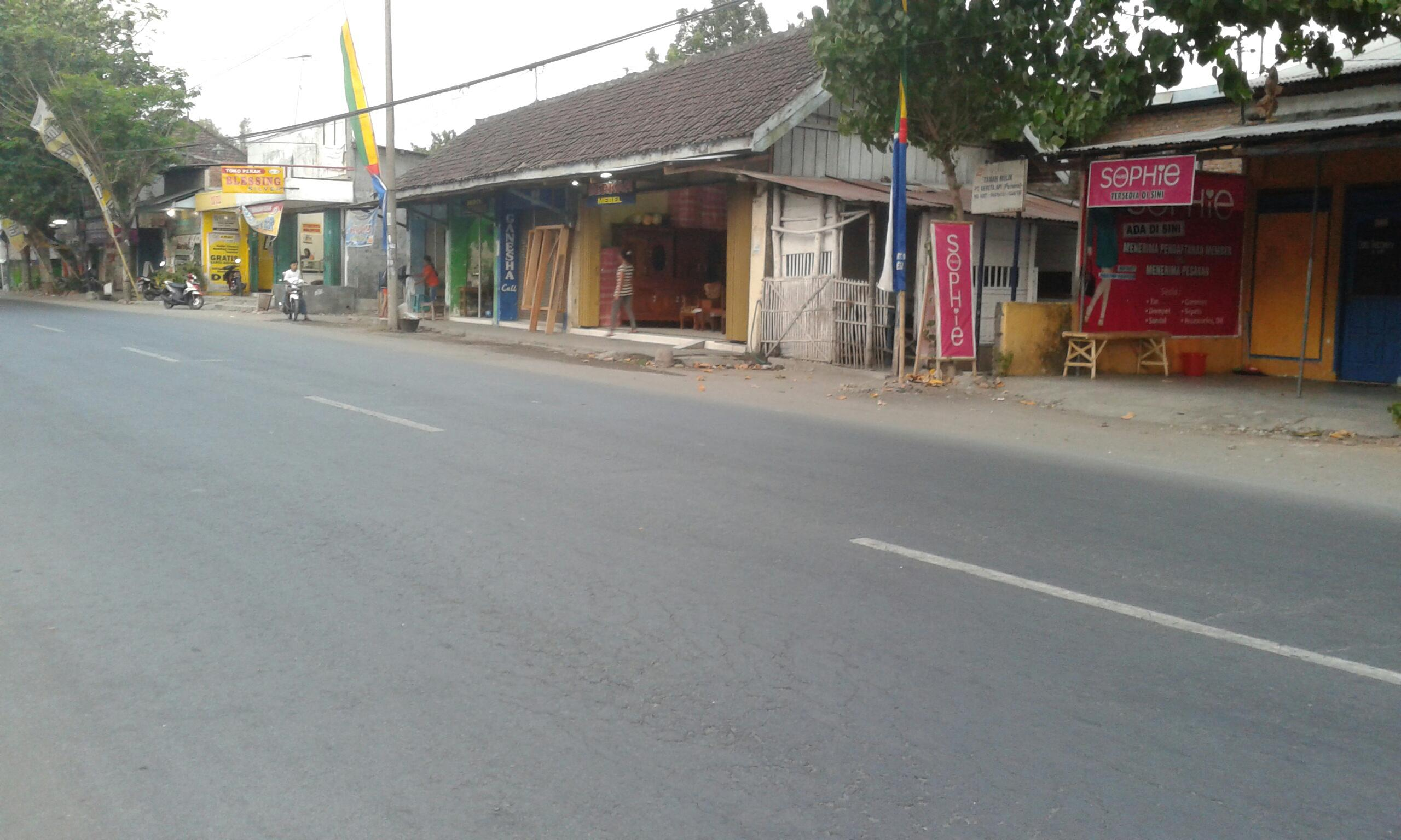 Stasiun Gurah